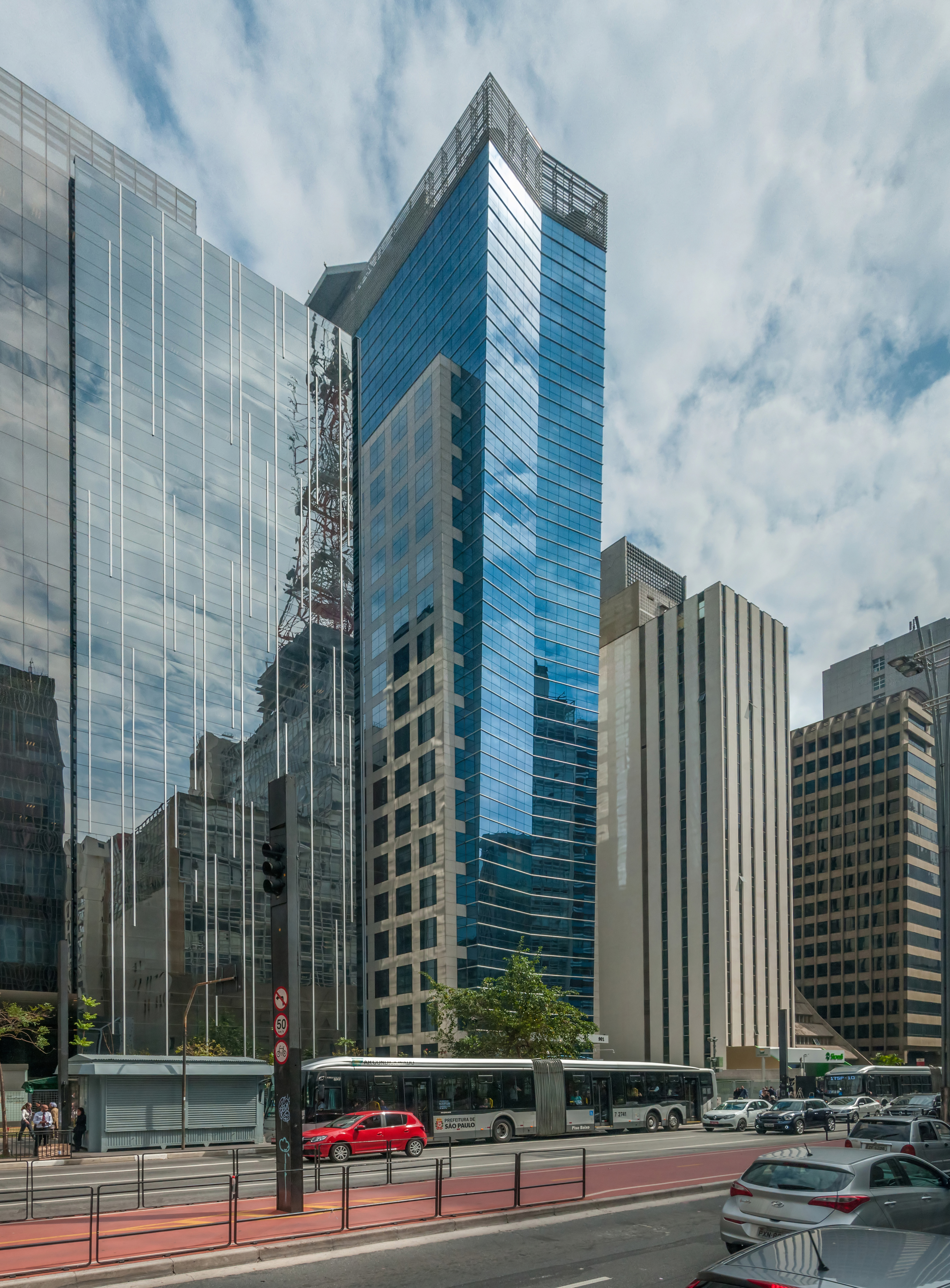 Paulista 867, Comendador Yerchanik Kissajikian, Banco Mercantil and São Miguel Buildings, Avenida Paulista, São Paulo